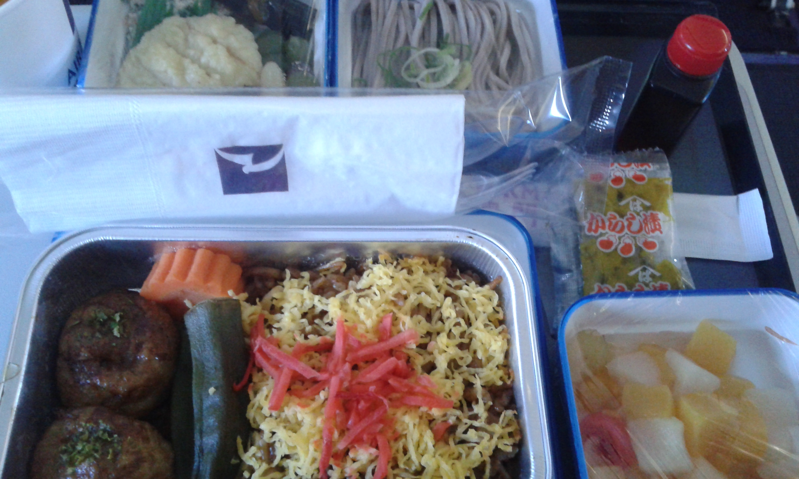 In-flight meals of Air Macau